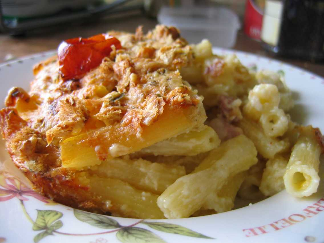 "Macaroni" and cheese. No macaroni was available, so I used sedanini instead.